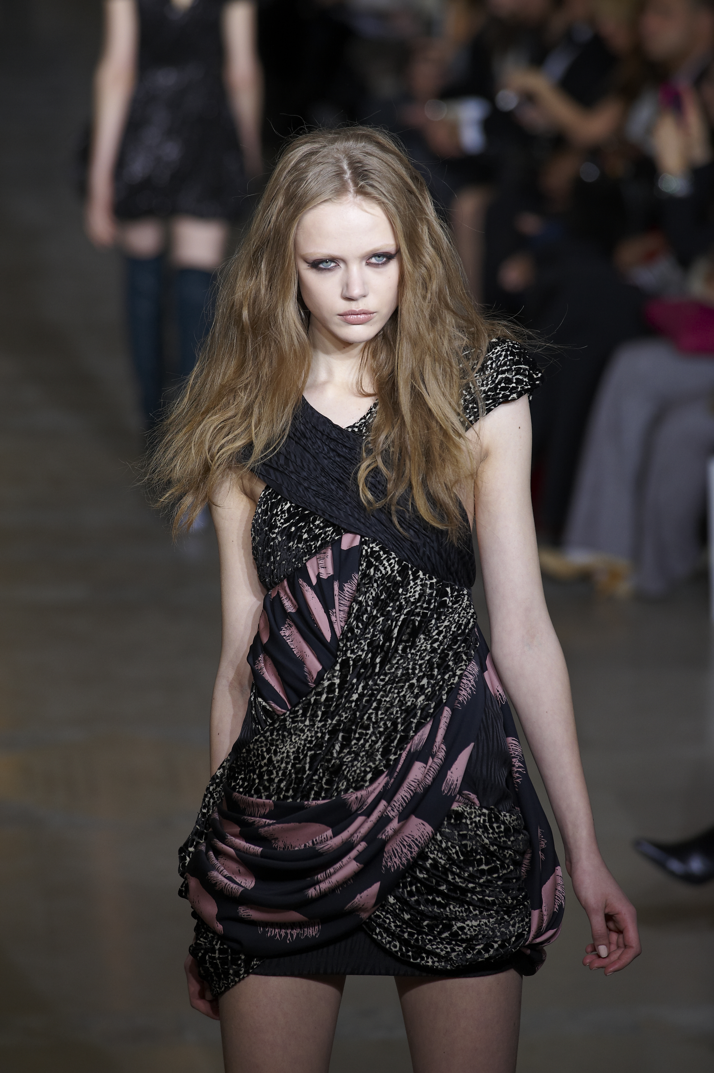 A model walks the runway at the Jill Stuart Fall/Winter 2010 show at New York Fashion Week, February 2010.